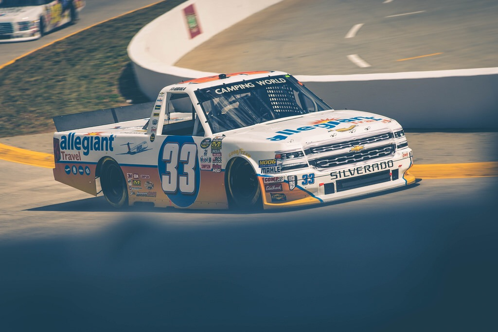 Kaz Grala in the #33 Allegiant Travel Chevy Silverado in the Camping World Truck Series.